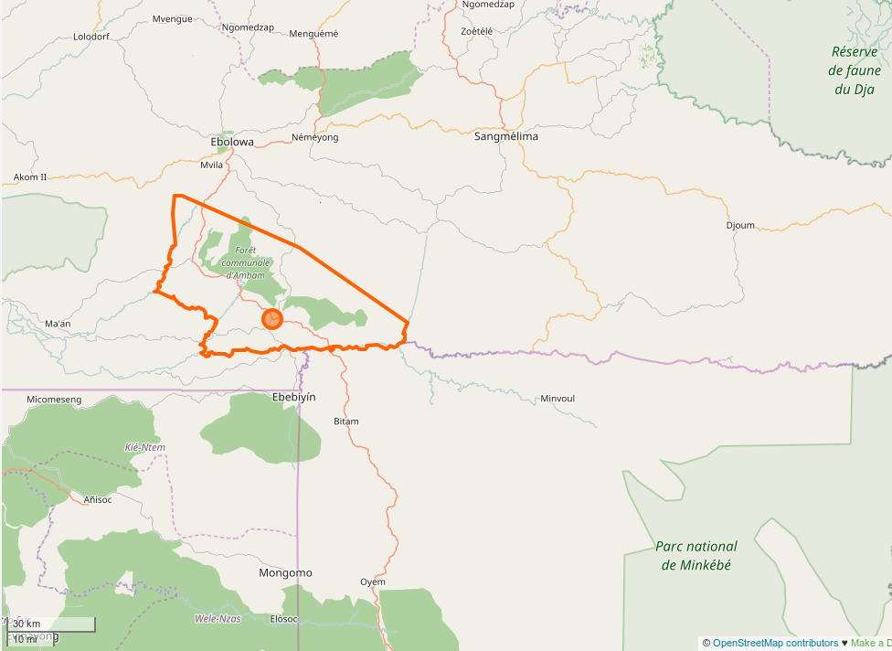 Ambam, Cameroon ː city boudaries with OSM. This map may be incomplete, and may contain errors. Don't rely solely on it for navigation.